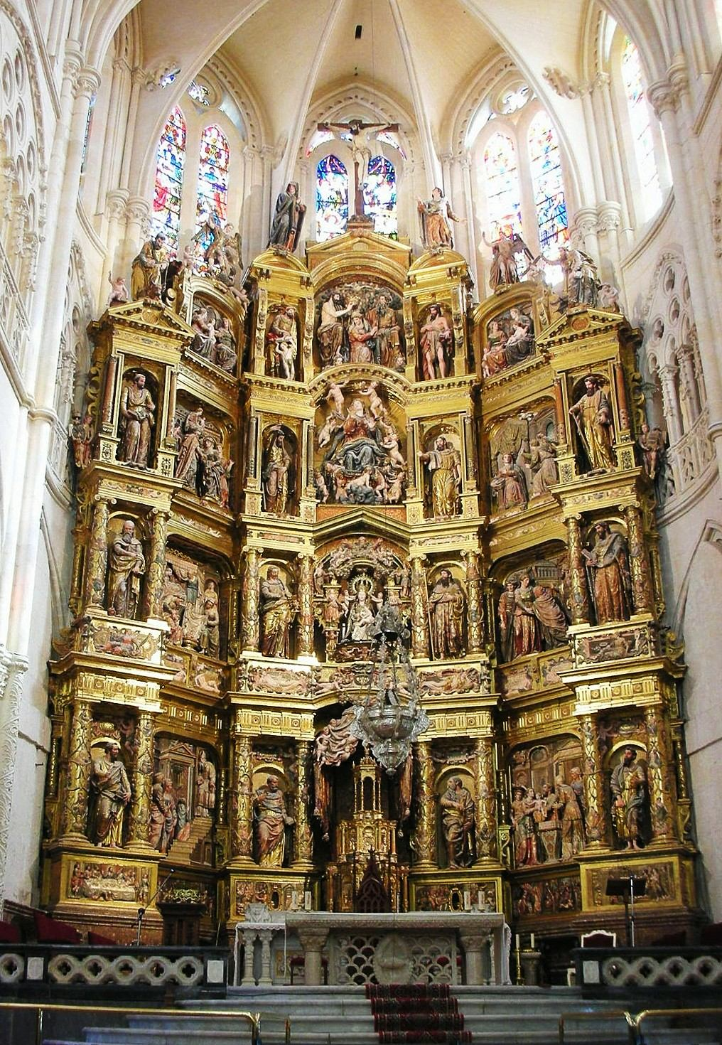 Retablo mayor de la Catedral de Burgos (s-XVI), España